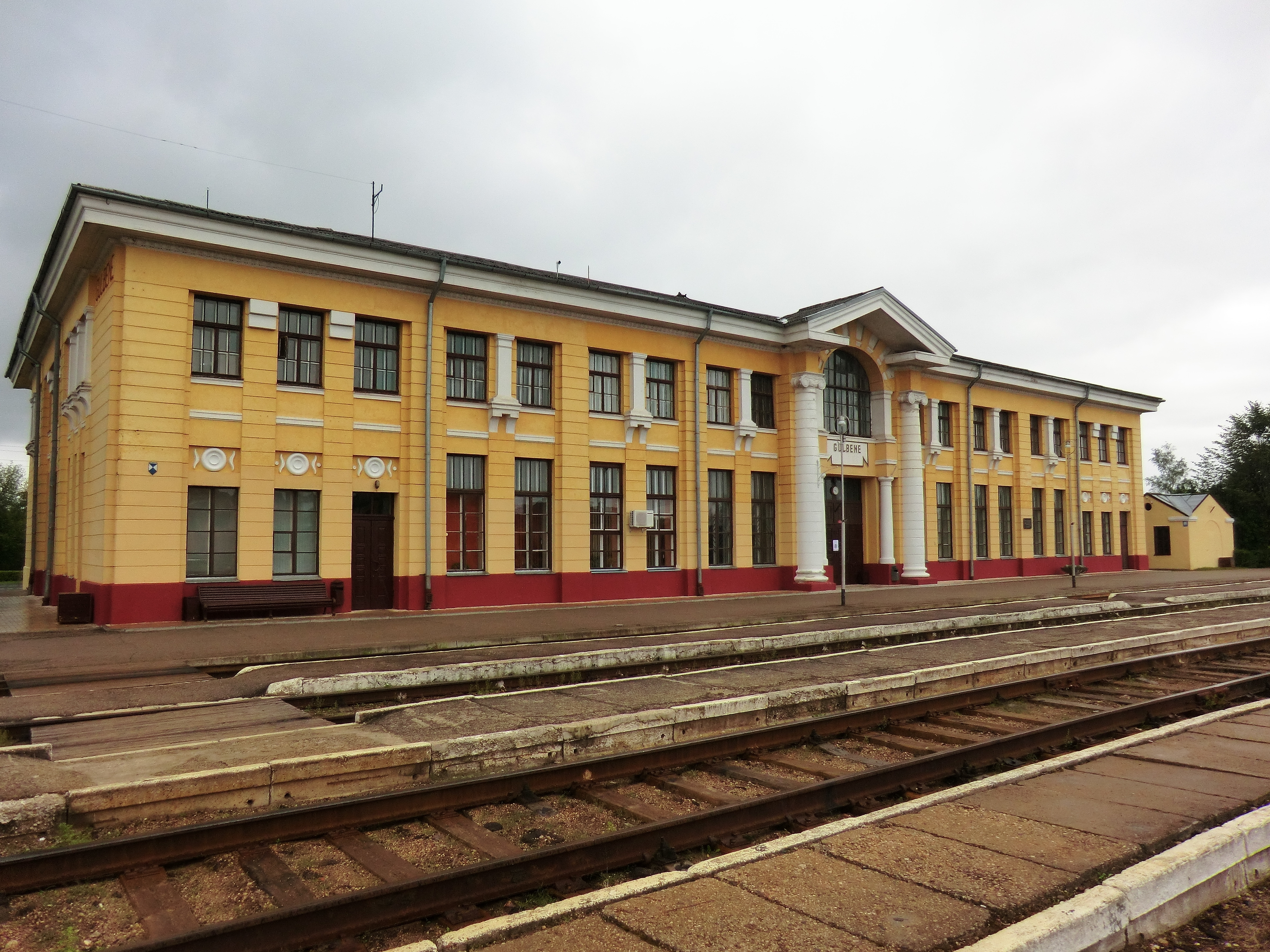 Gulbene railway stationLatviešu: Gulbenes stacija